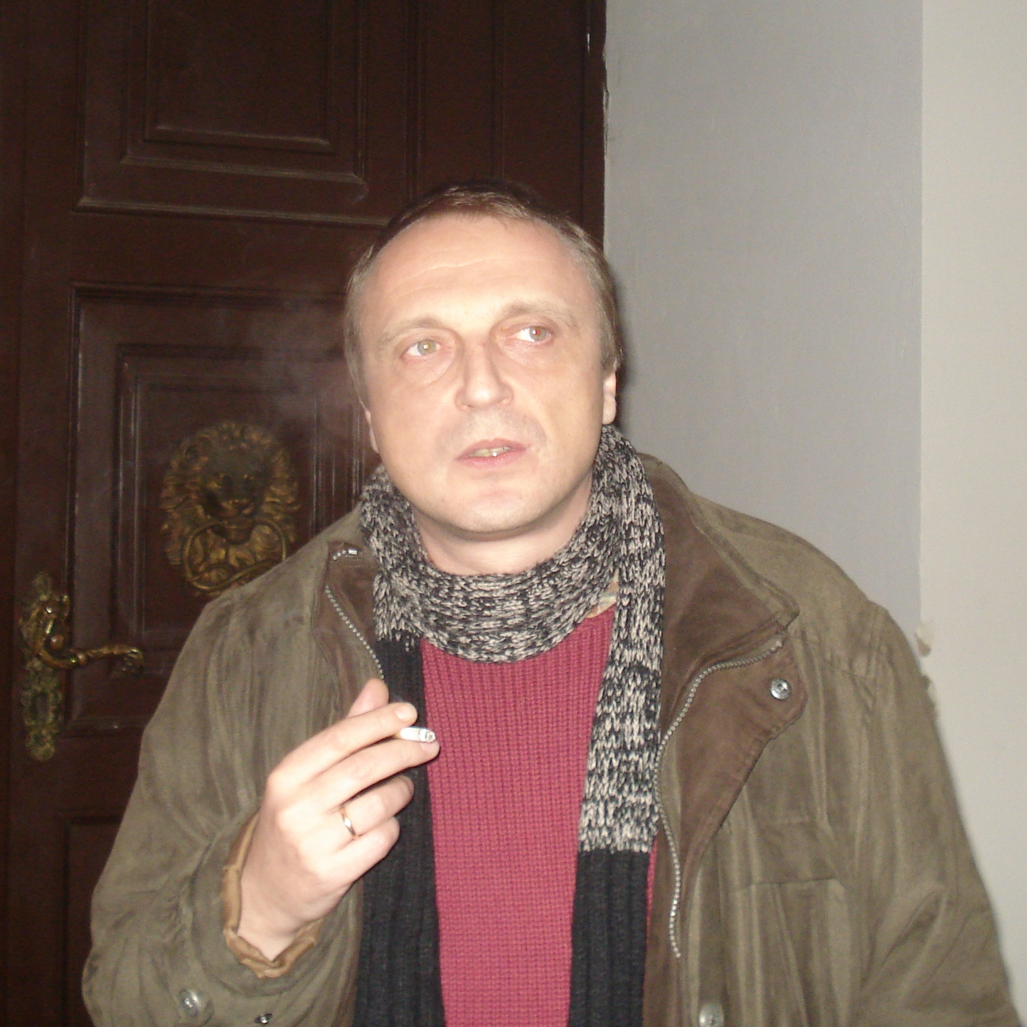 Roman Leibov (born 1963), Estonian literature researcher and writer